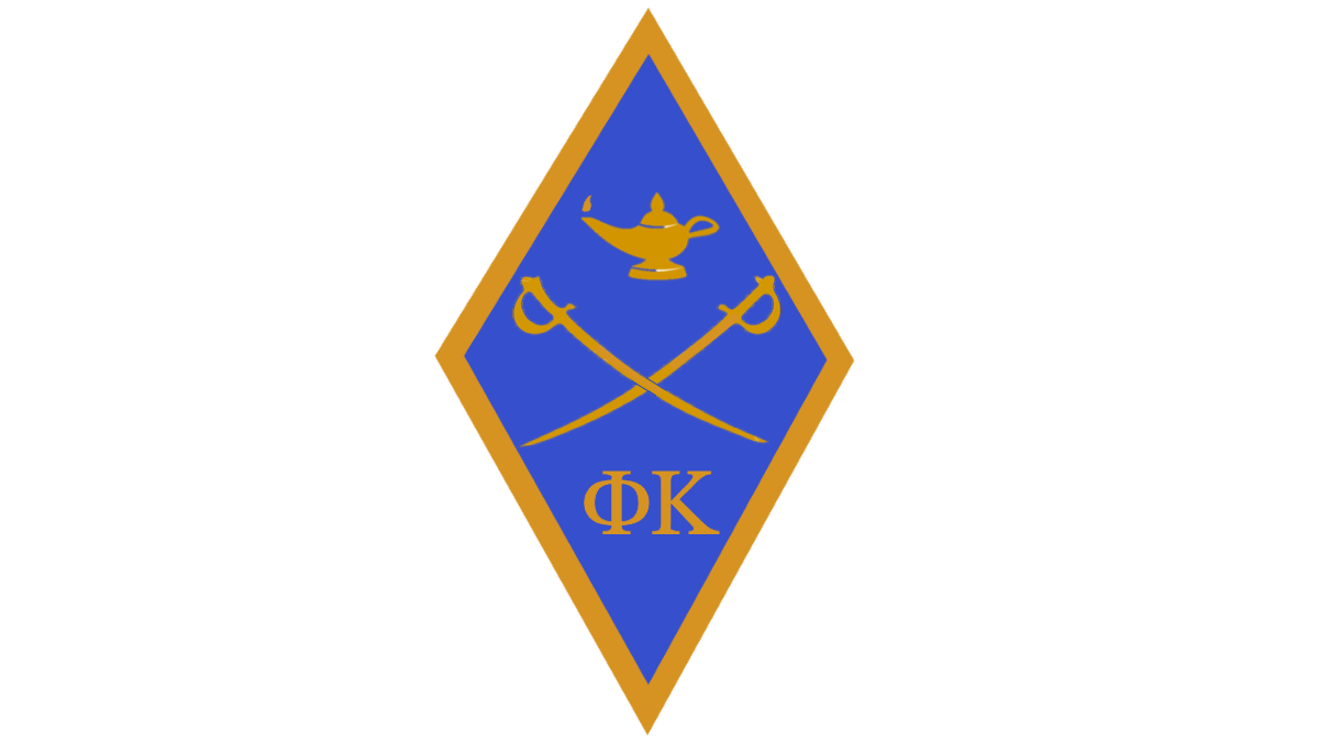 Badge of Phi Kappa National Fraternity